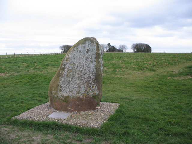 Battle of Ethandun memorial A view looking to the south towards the memorial stone to the Battle of Ethandun, which took place in this area, May 878AD. White Horse Farm can be seen in the background.